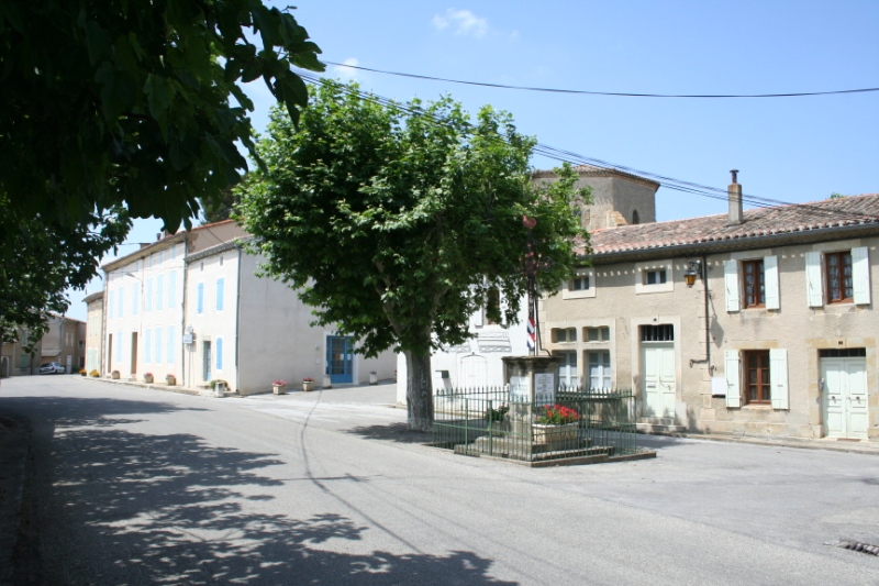 This is a photo along rue principal in the centre of the village of Airoux